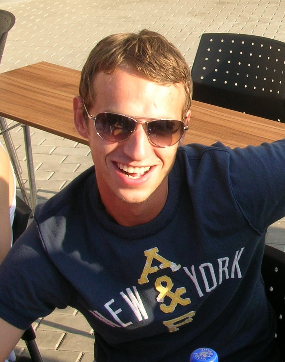 Marek Jarolím, Czech football midfielder, player of SK Slavia Prague